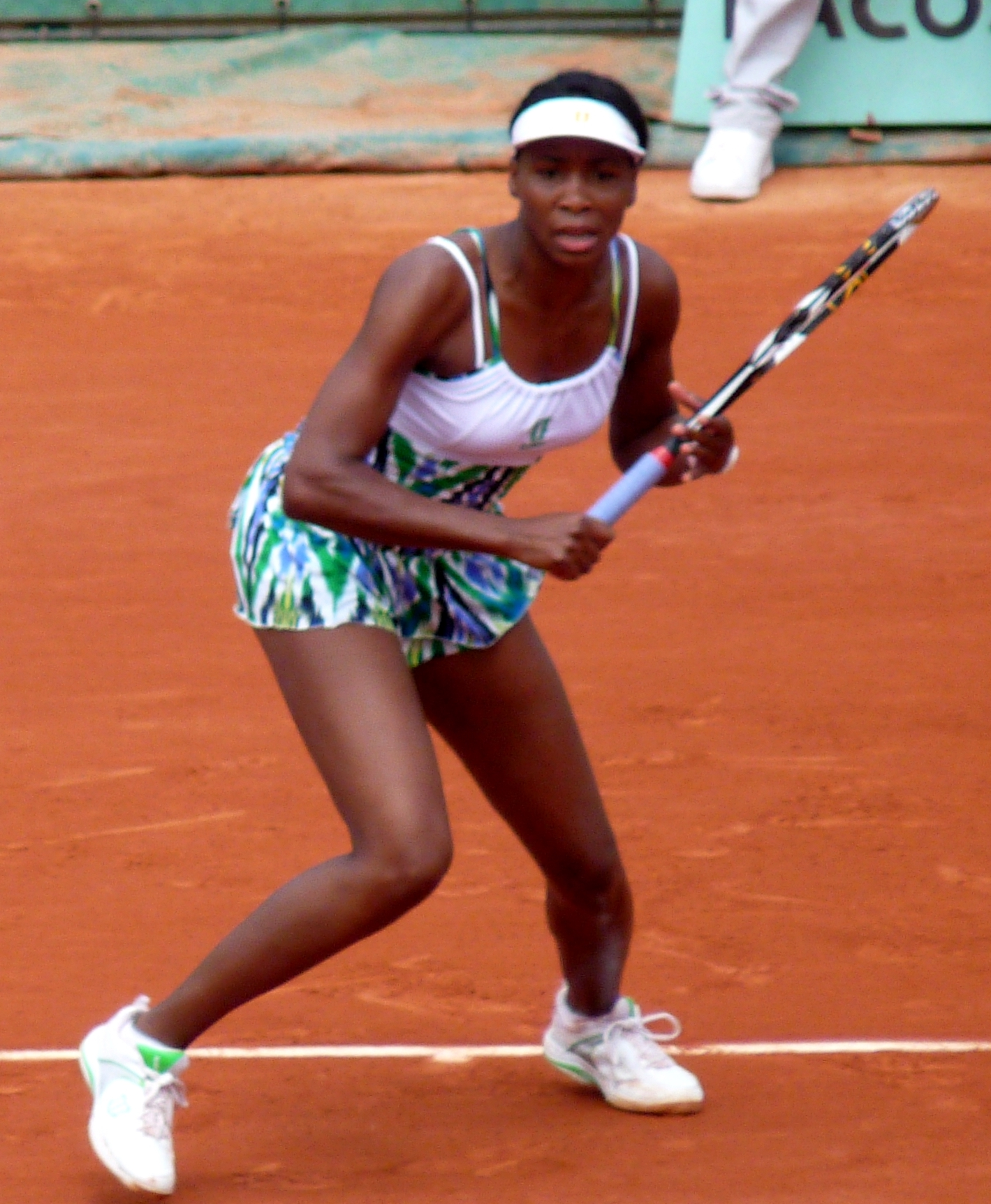 Venus Williams against Ágnes Szávay in the 2009 French Open third round